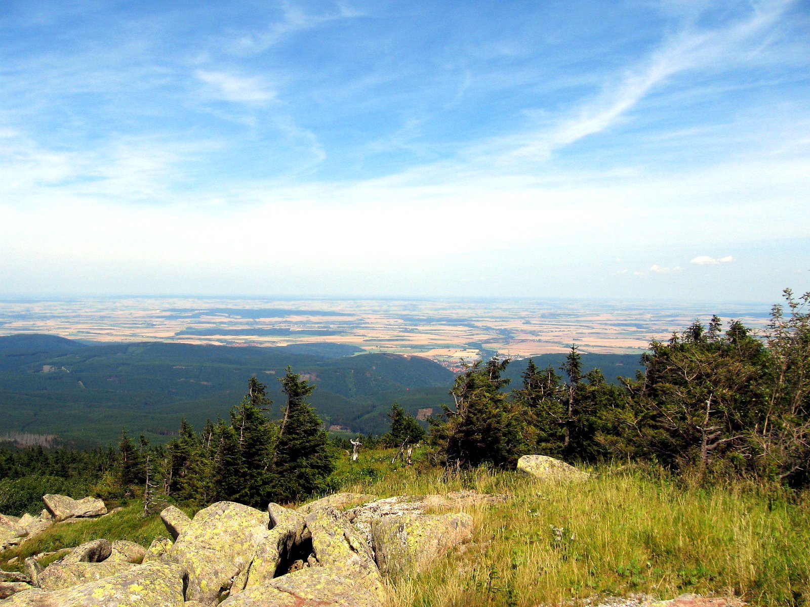 Germany / Harz : Brocken - view to north at town Wernigerode